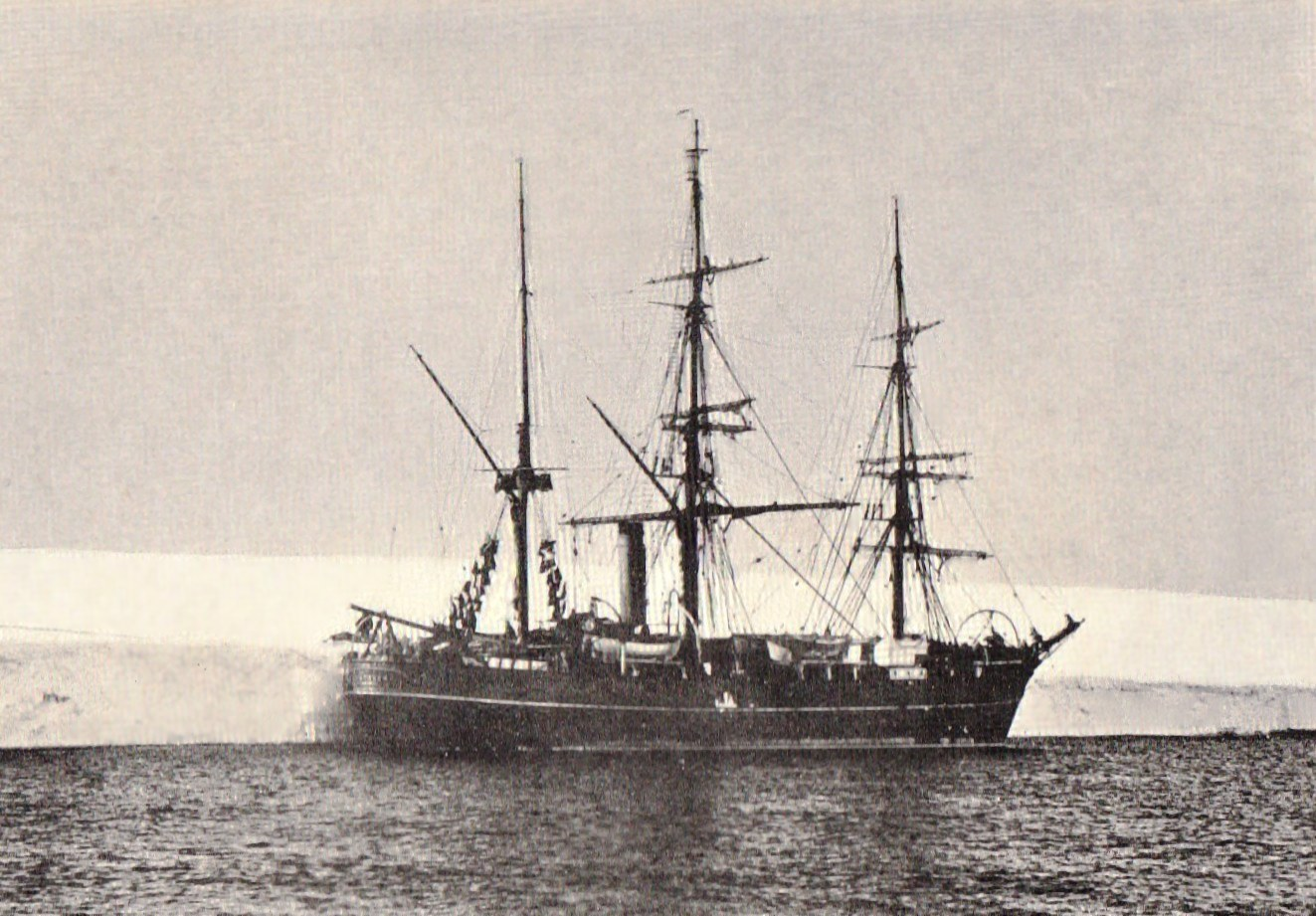 Antarctic expedition ship Discovery anchored to the ice Half-tone reproduction of a photographic print.